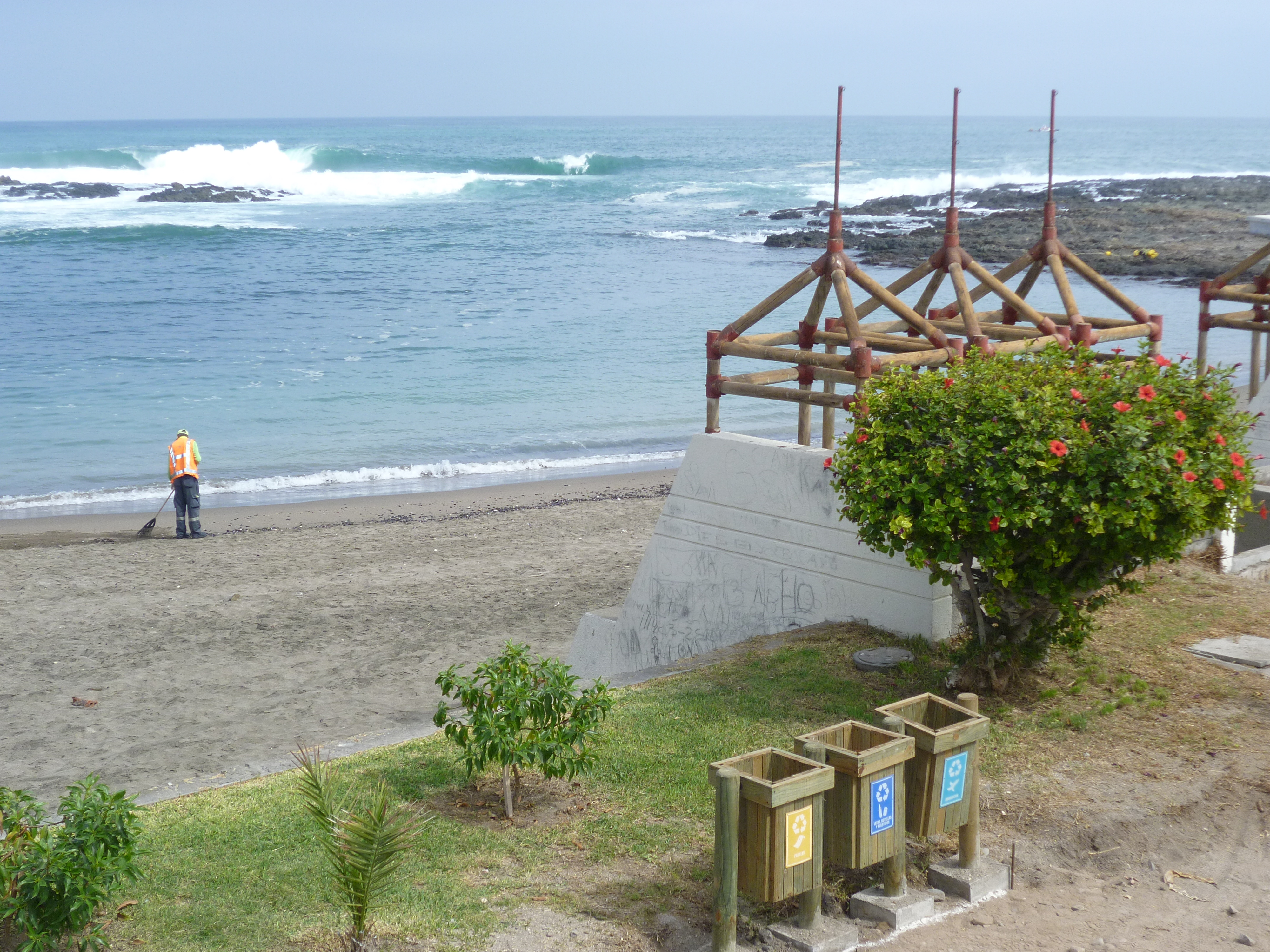 Playa La Lisera